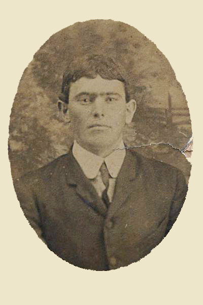 When South Carolina's first game wardens ventured afield in 1905, they focused on the illegal trapping of fish, which was especially rampant on the Edisto River. Public pressure had forced many trappers to remove their fish-catching devices, but that wasn't the end of the story. Warden L. Pressley Reeves of Reevesville in Dorchester County, who had been largely responsible for bringing the trapping to a halt, was shot to death by a hidden assassin in September 1908. A warrant was never issued in the case. Reeves death brought legislative attention to conservation issues that previously were viewed as being of little consequence by many South Carolinians.